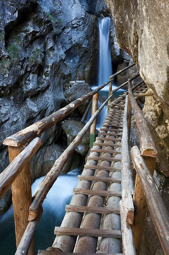 One of the first ladders into the narrow gorge.